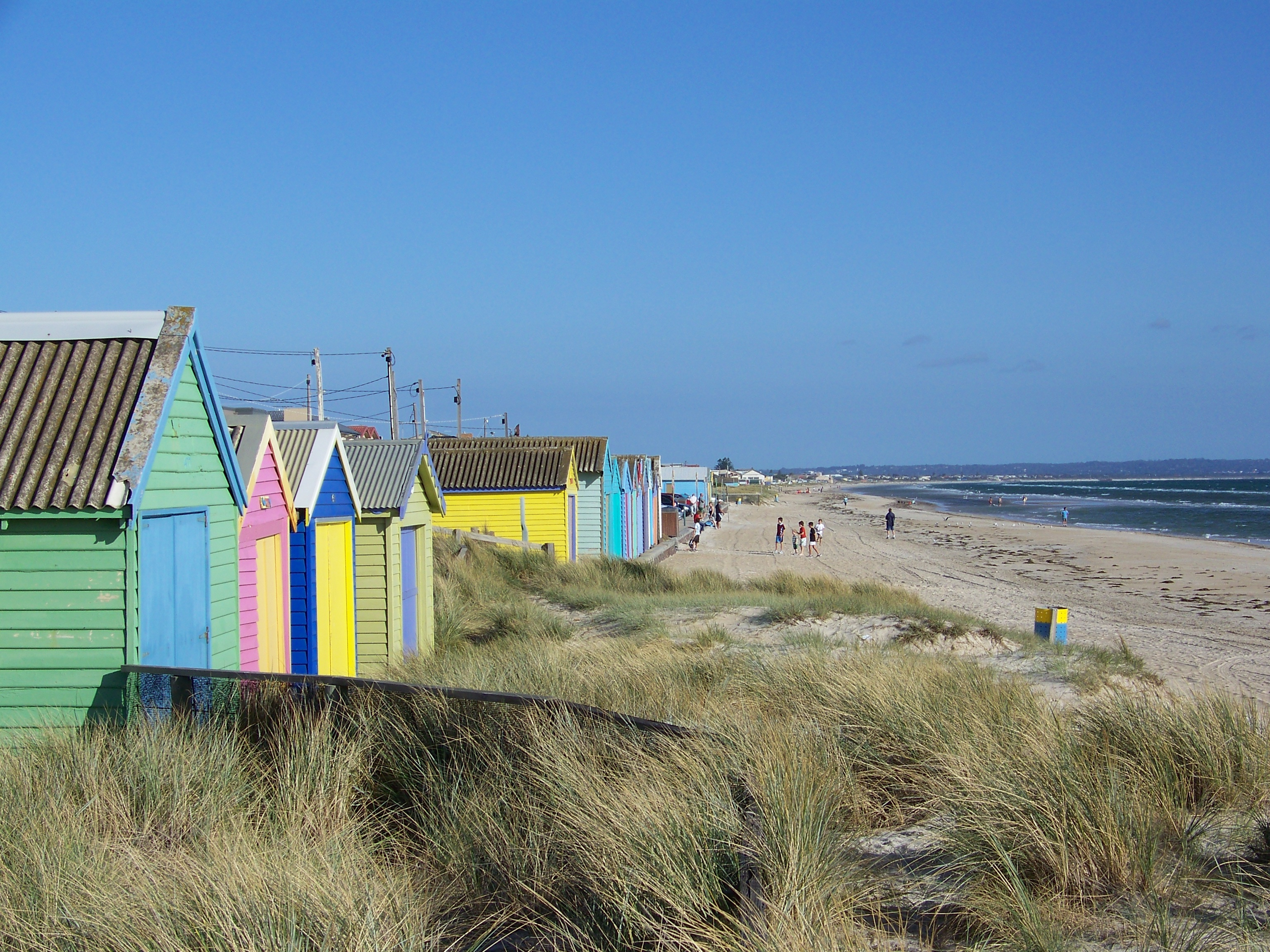 Beach scene at Aspendale, Victoria